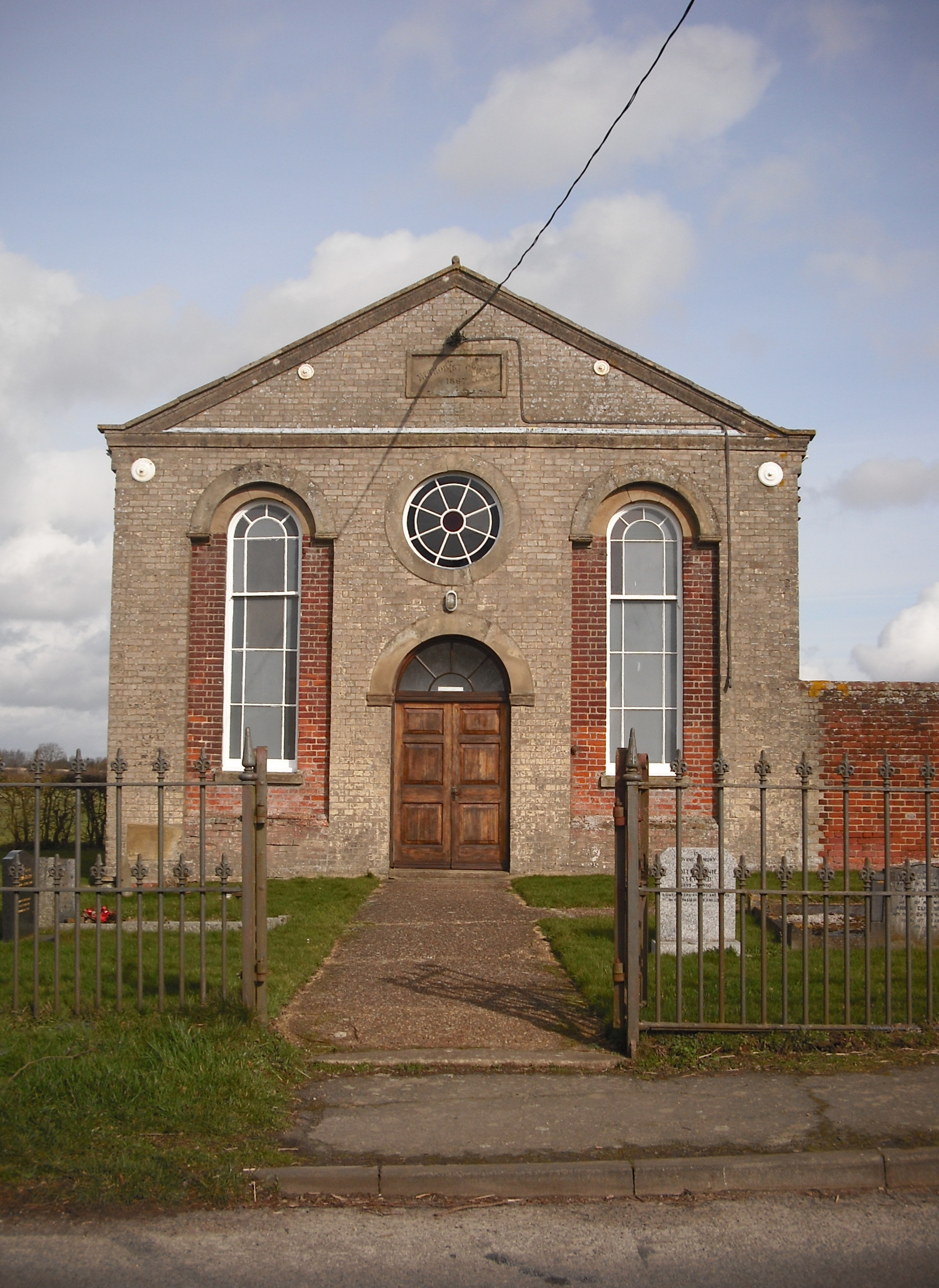 Bradfield Combust Methodist Church, March 2014 - front